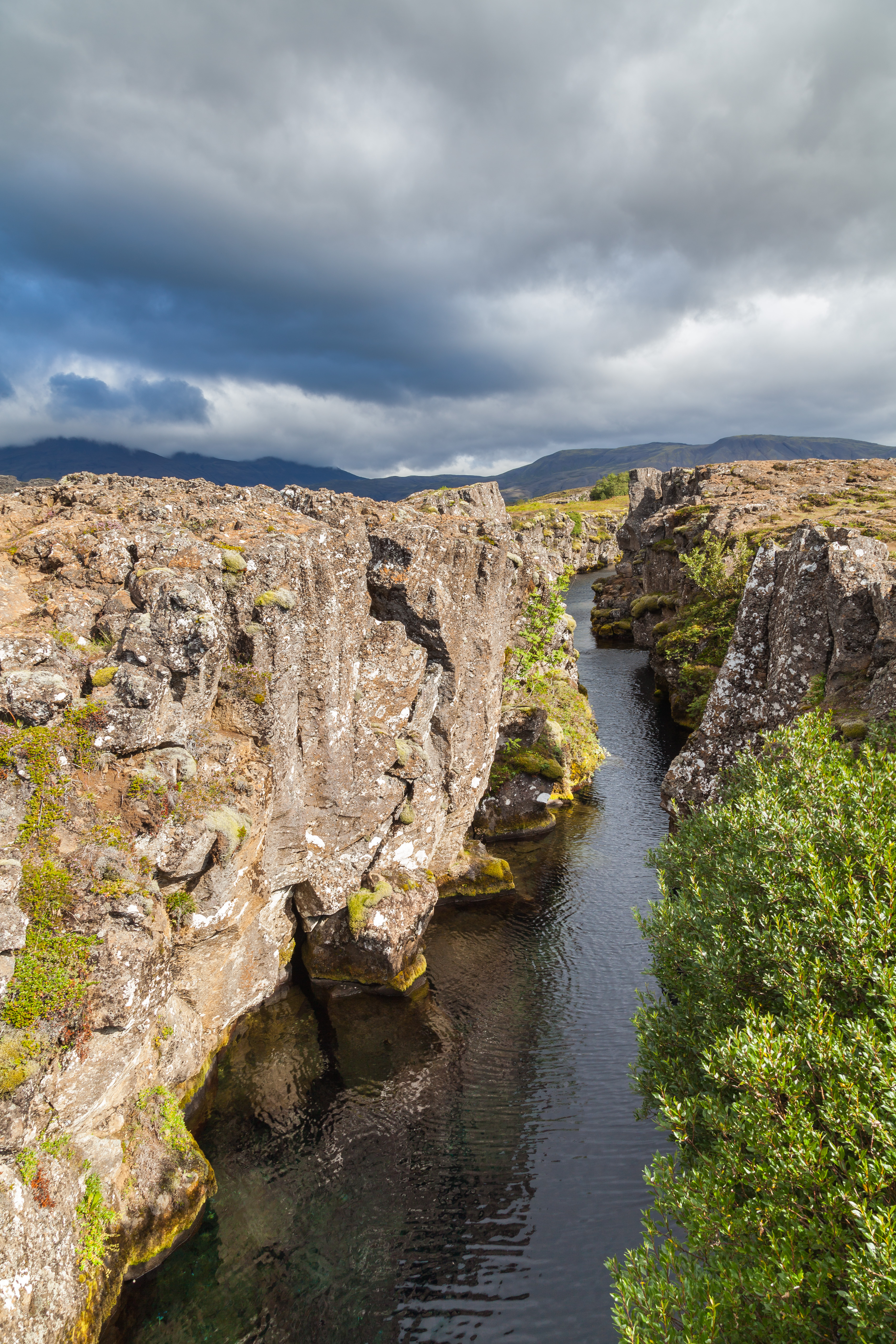 Flosagjá canyon, a continental drift between the tectonic plates (North American and Eurasian), Þingvellir National Park, Southern Region, Iceland.